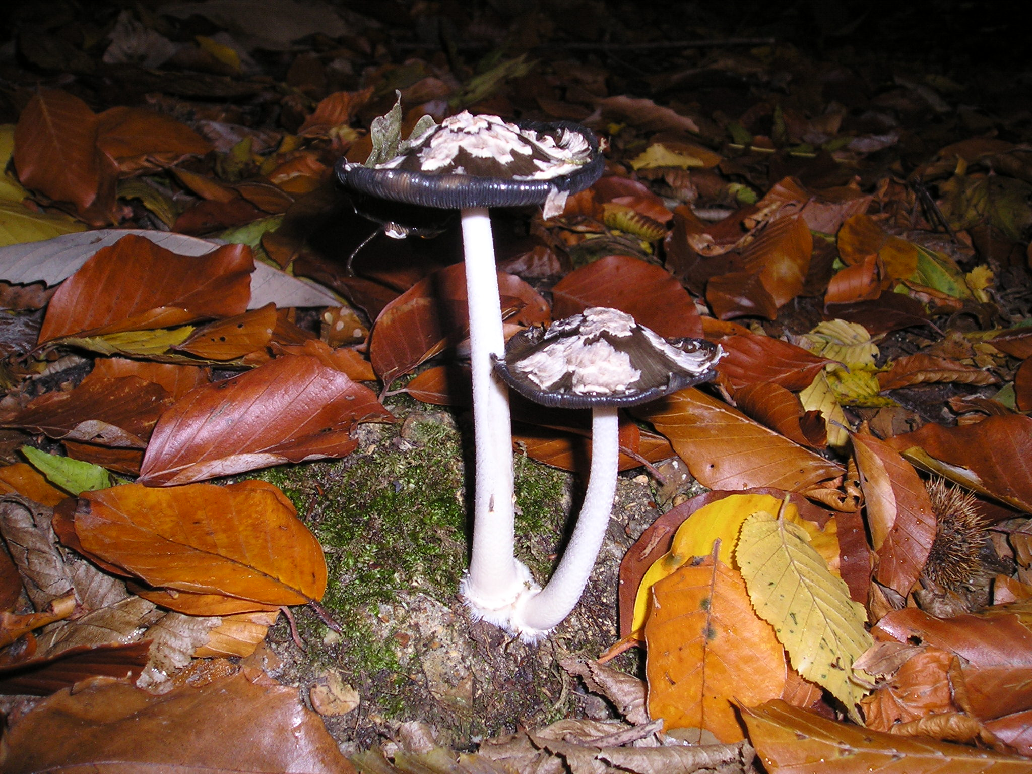 Coprinus picaceus ("Magpie fungus") in a French wood.